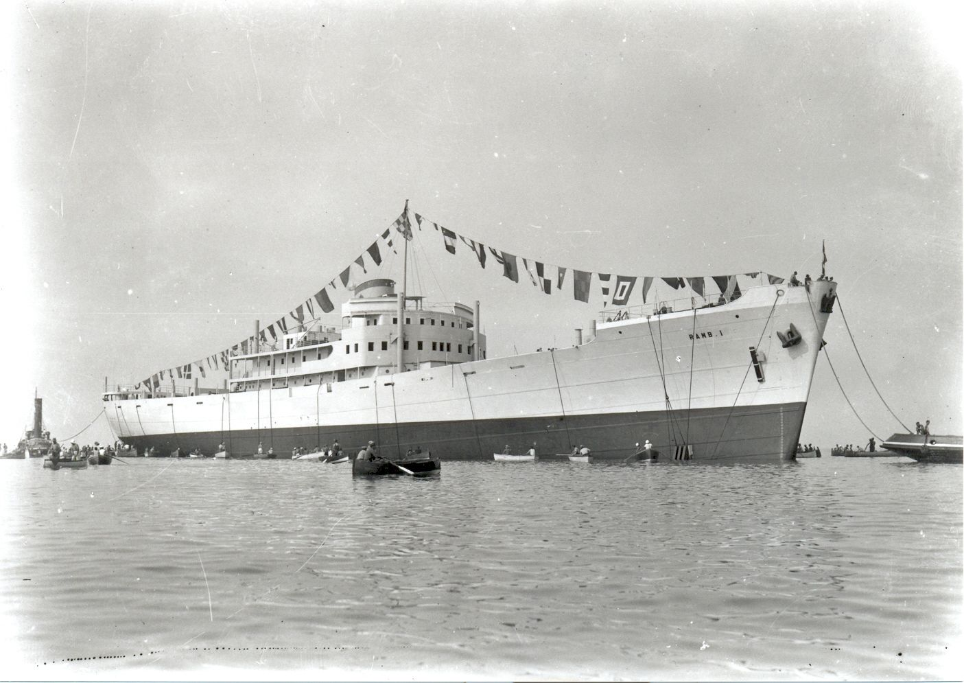 Launch of RAMB I on 22 July 1937